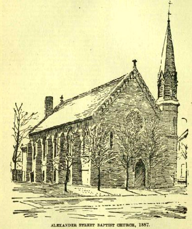 Engraving of Alexander Street Baptist Church (Toronto) in 1887